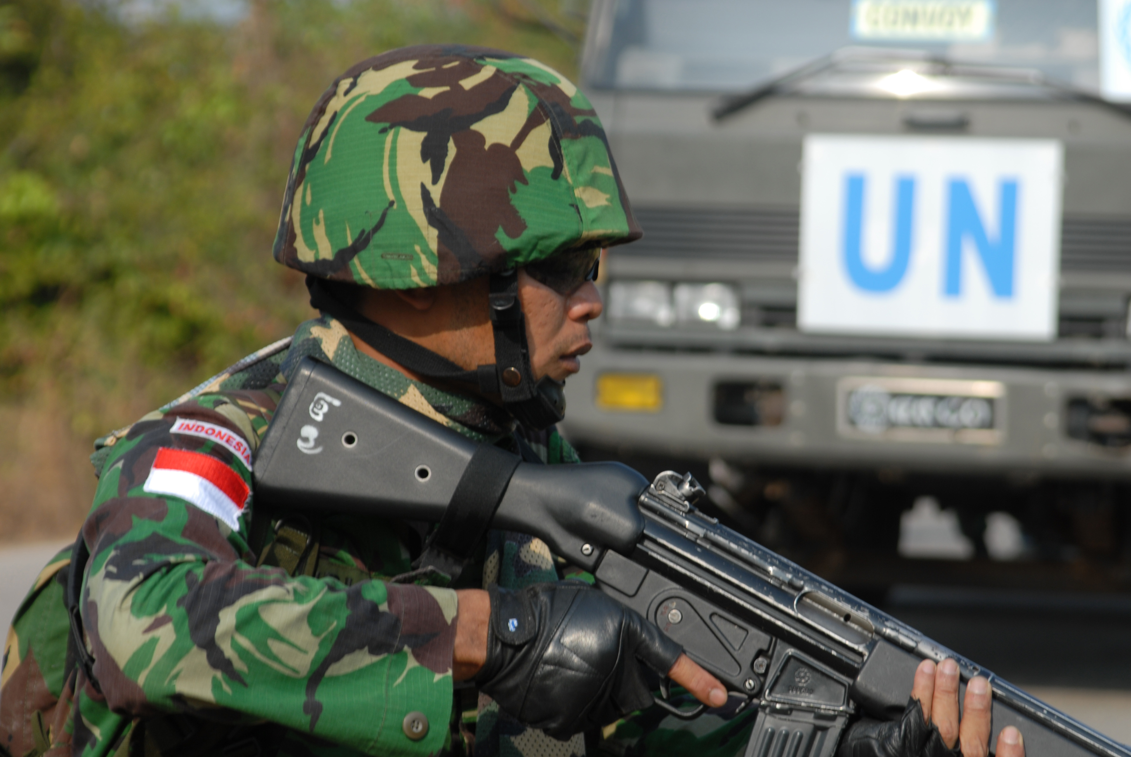 An Indonesian Army infantryman participating in the U.N..'s Global Peacekeeping Operation Initiative (GPOI), provides security for a World Food Agency truck. Part of Cobra Gold 09, the GPOI allows Soldiers from Thailand, Japan, Indonesia, Singapore and the U.S. to develop and execute scenarios based on actual peacekeeping experiences.